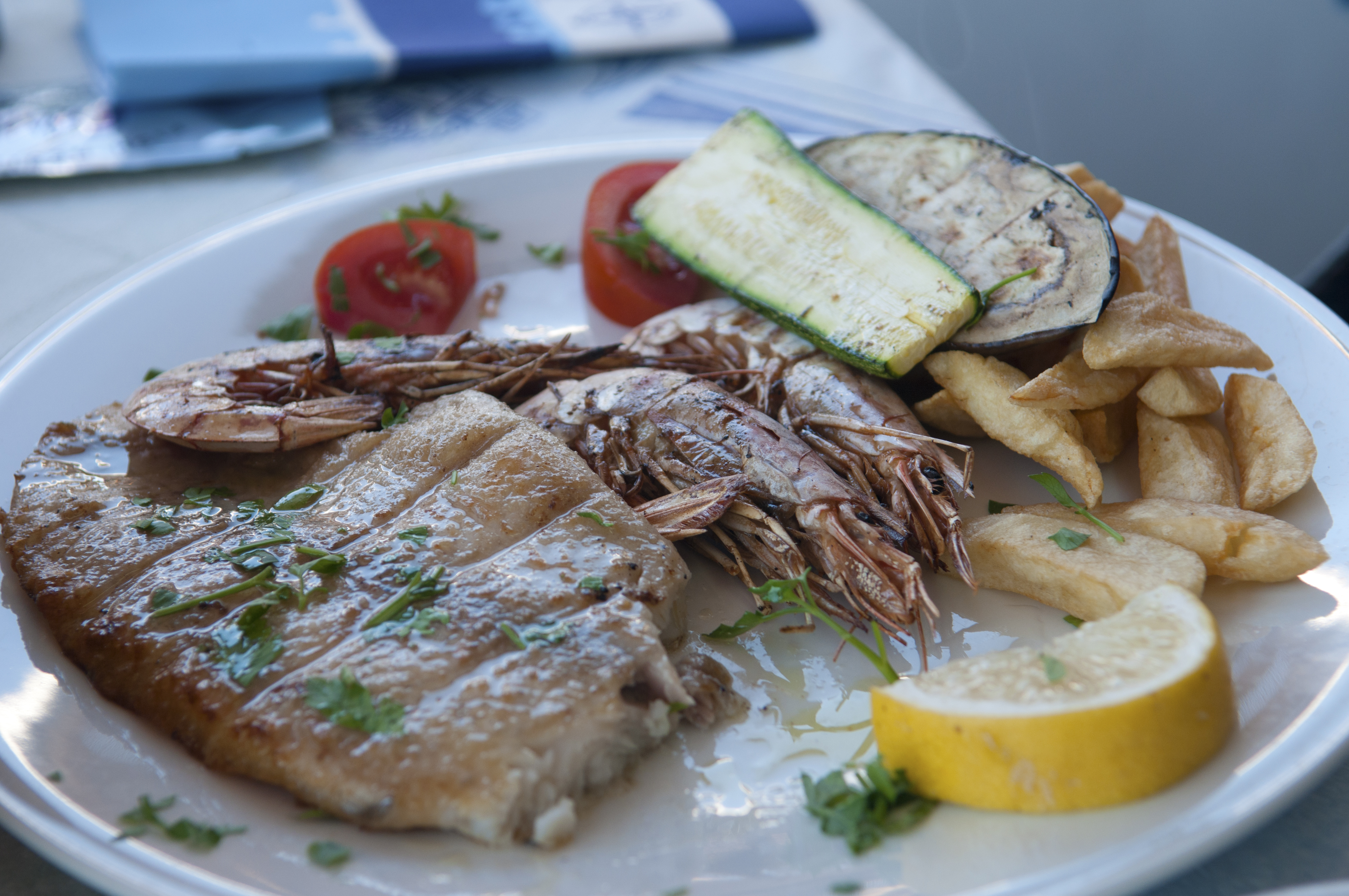 Sole with prawns in Limnionas, Kos, Greece